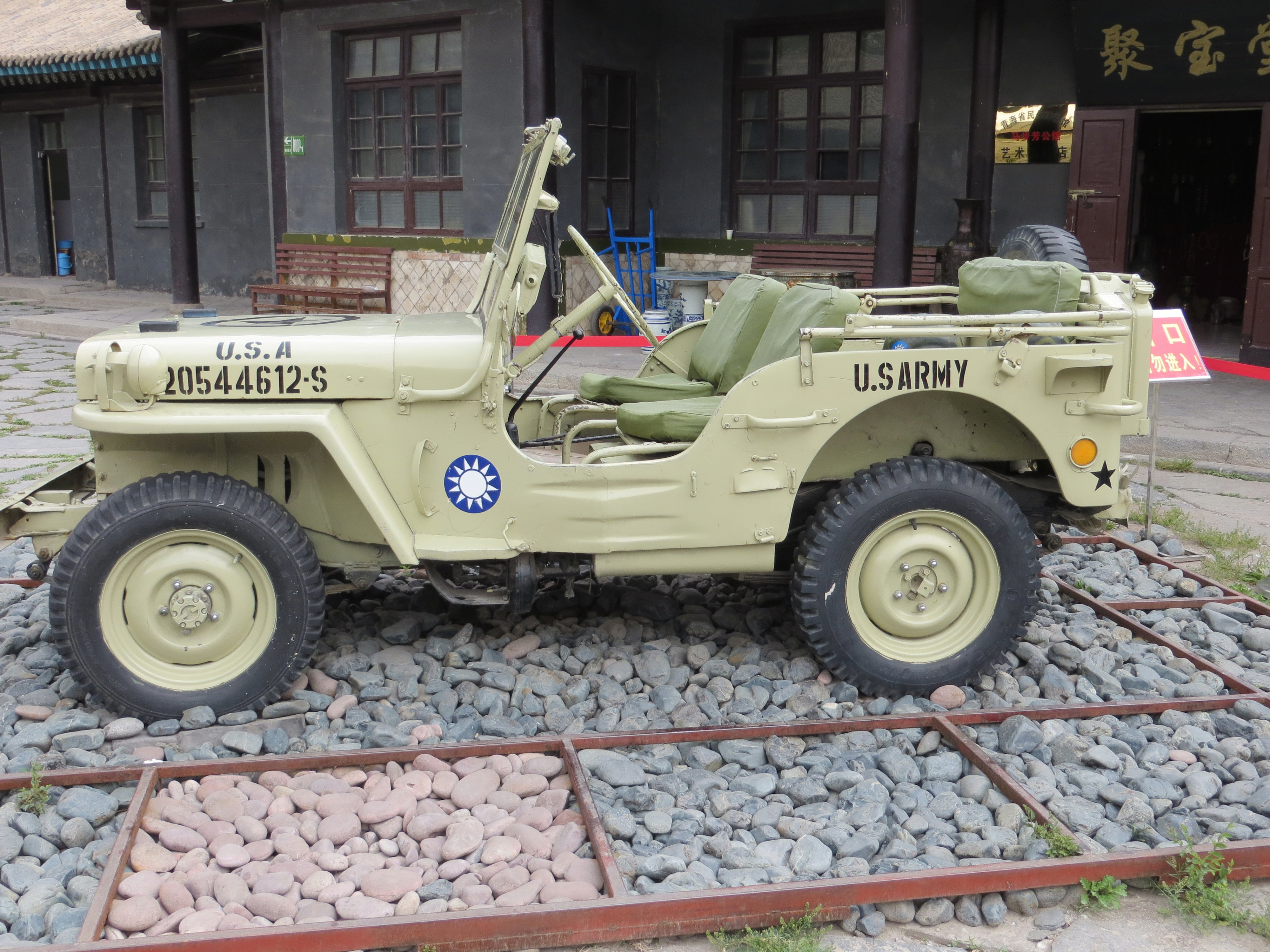 Jeep given by the US army to the Guomindang and used by the Hui Ma Clique to maintain Guomindang power over Qinghai (Amdo in Tibetan Zang language). Located at "Qinghai Xining Ma Bufang Residence" (青海西宁马步芳公馆) museum at Xining, Ma Bufang's former residence. This vehicule was taken by People's Liberation Army in 1949, when Ma Bufang escaped.